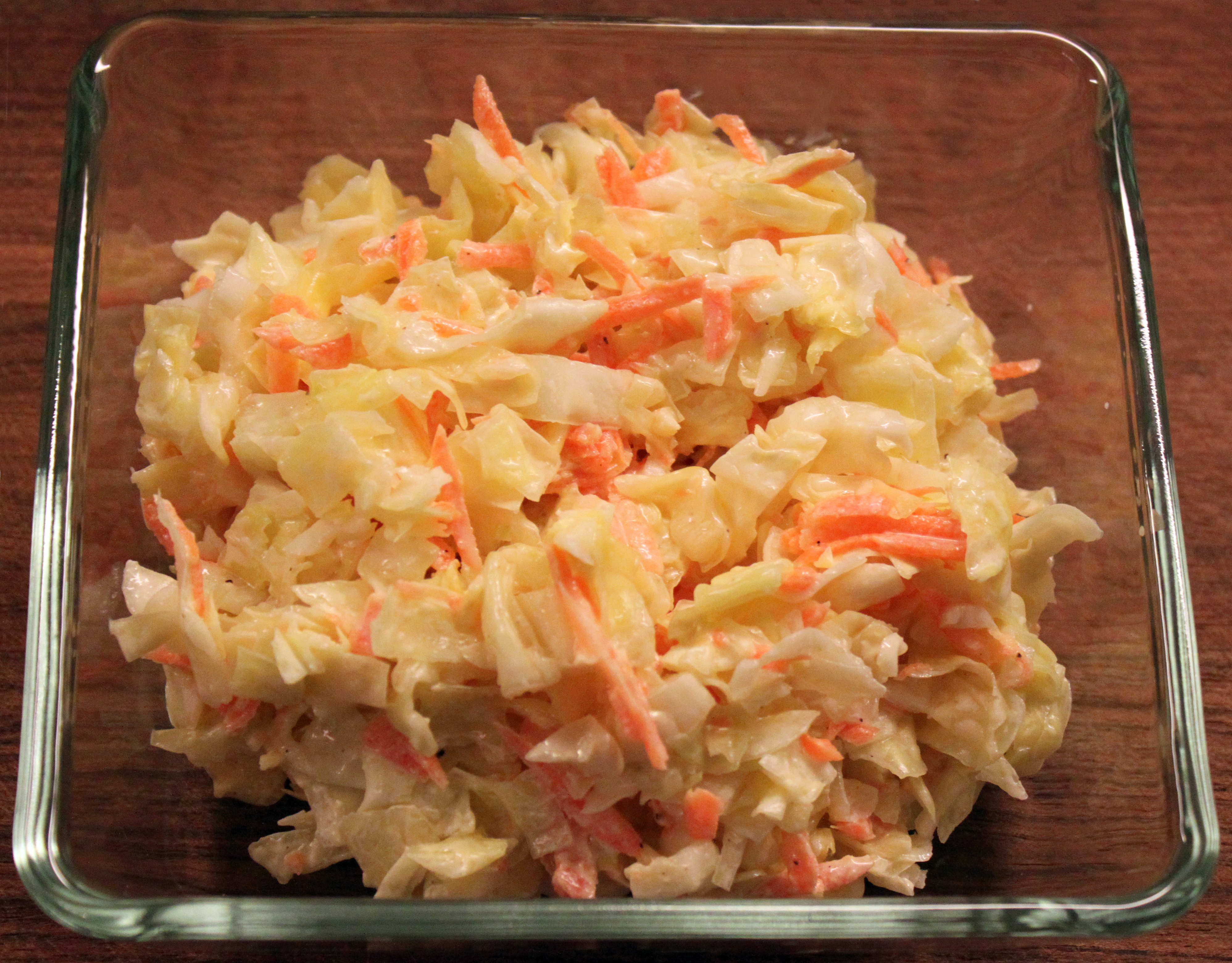 Cabbage salad with carrots (coleslaw)